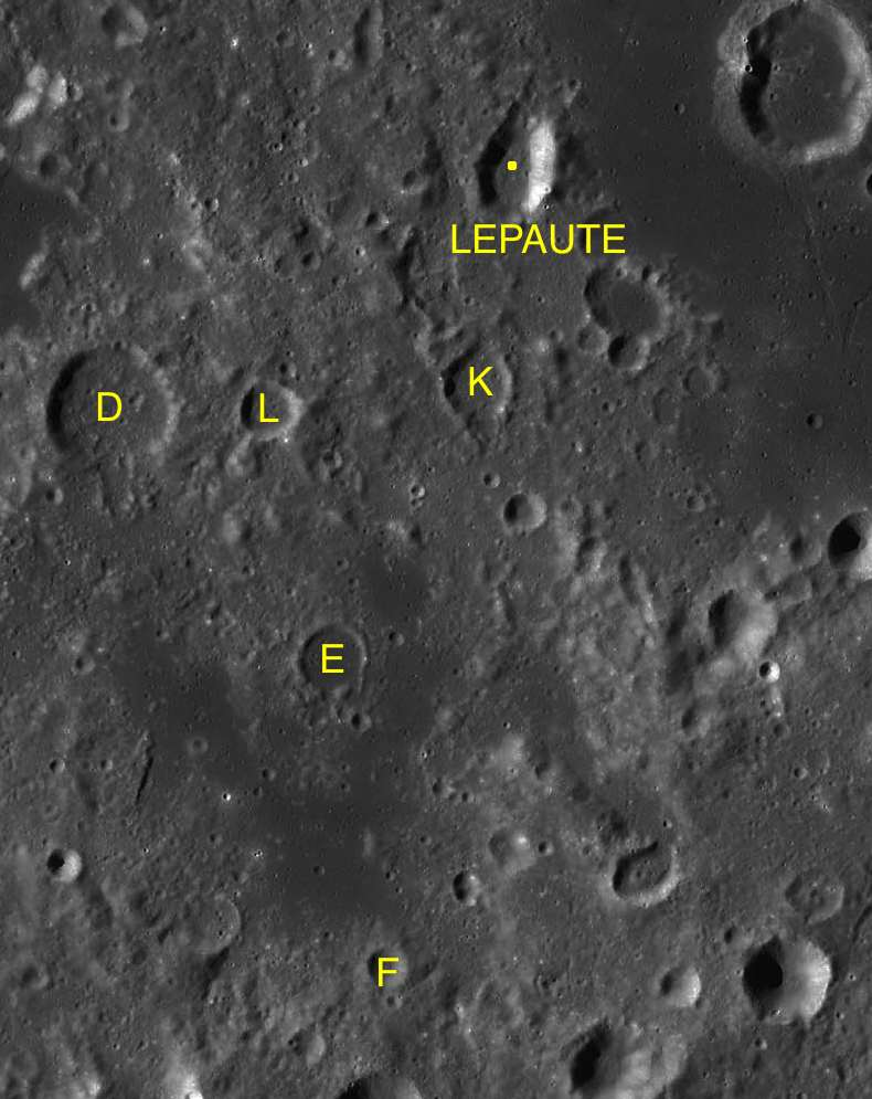 Part of the chart LAC-111 used for the presentation